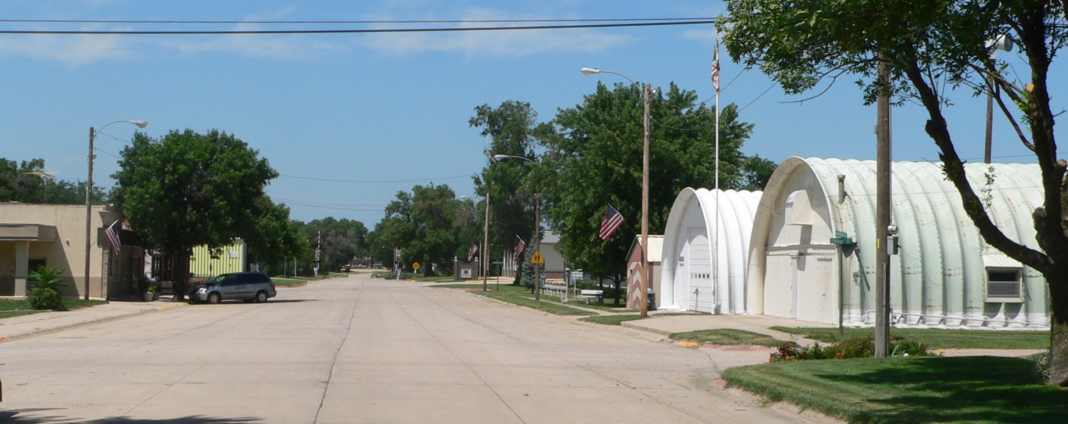 Downtown Grafton, Nebraska: Washington Avenue, looking north from about Omaha Street.